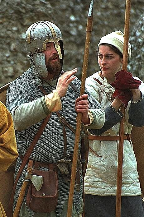 A saxon man wearing chainmail